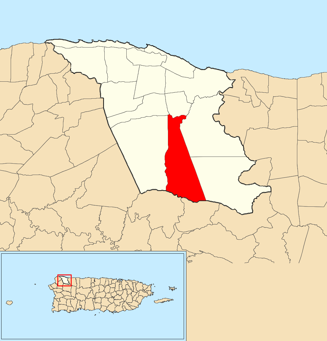 Galateo Alto, Isabela, Puerto Rico locator map